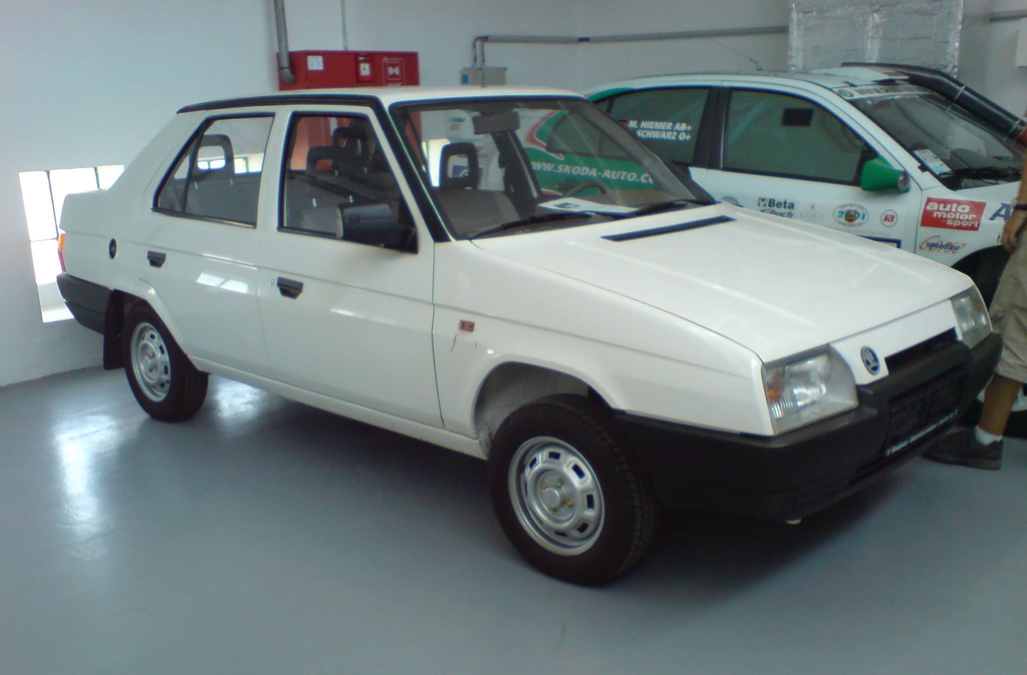 Prototype of saloon version of Škoda Favorit.